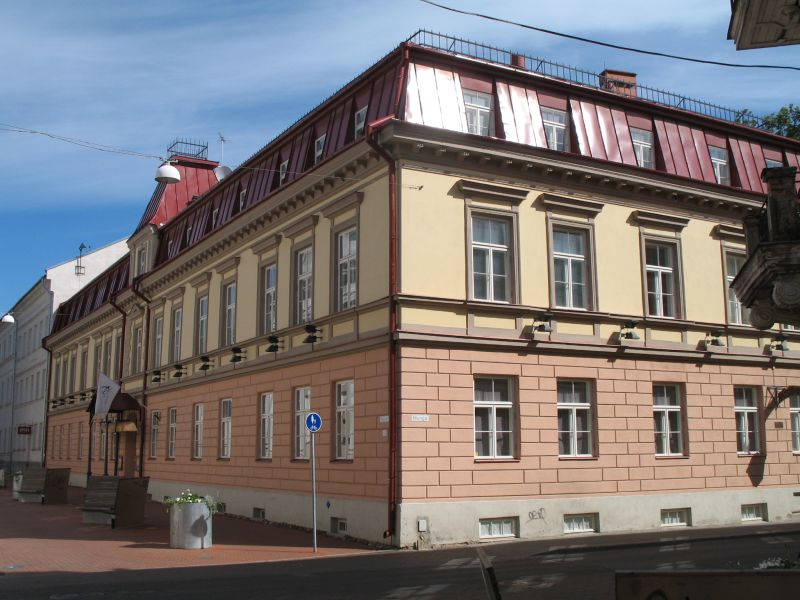 Estonian Sports Museum in Tartu.